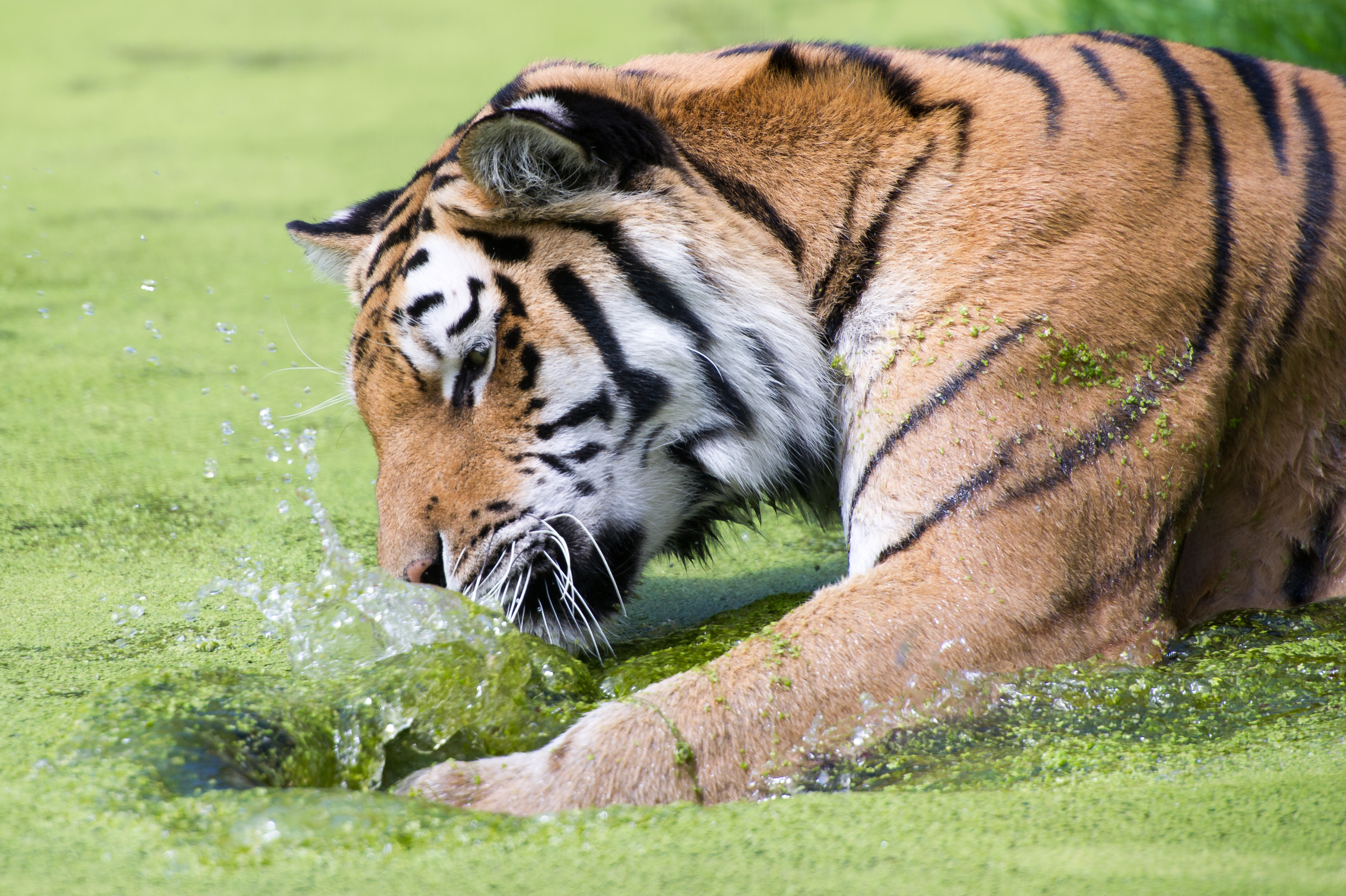 Siberian tiger (Panthera tigris altaica, also Amur tiger) in the zoo in vienna